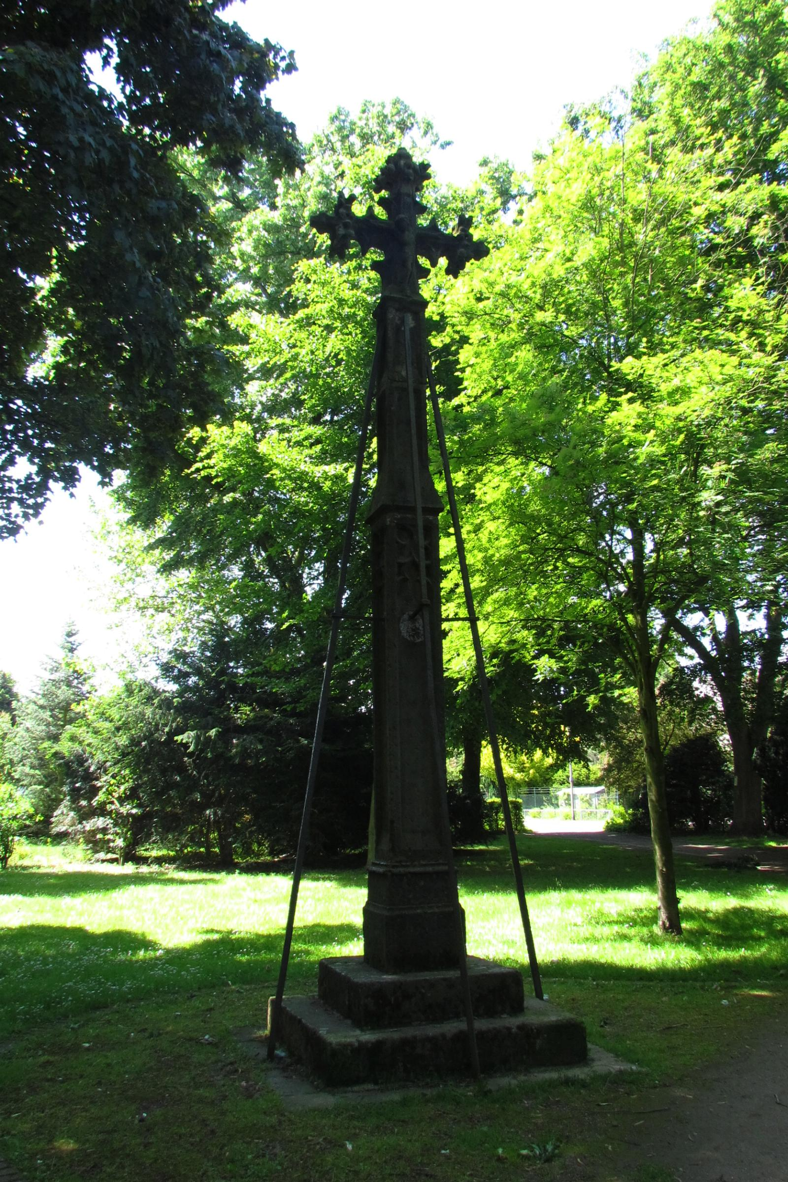 This is a photograph of an architectural monument.It is on the list of cultural monuments of Korschenbroich